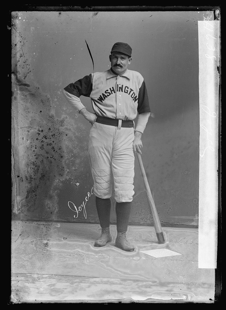 William Joyce baseball player in 1894 photographed by C. M. Bell Studio